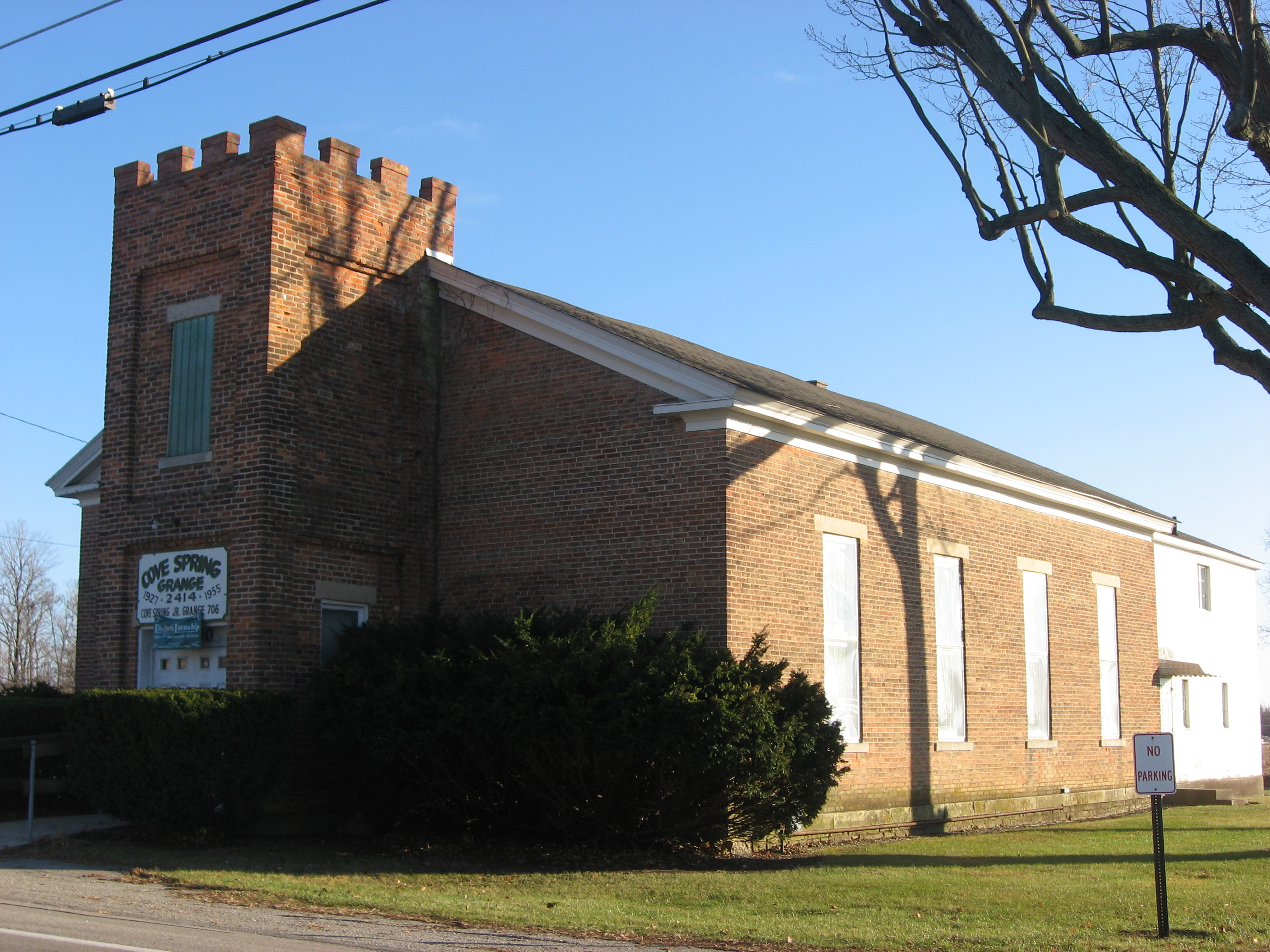 Front and western side of the Cove Springs Grange, located at 7900 E. State Route 41 in Alcony, an unincorporated community in Elizabeth Township, Miami County, Ohio, United States. Built in 1927, it is part of the Elizabeth Township Rural Historic District, a historic district that is listed on the National Register of Historic Places.